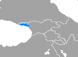 Where it is the majority Where it is the minority